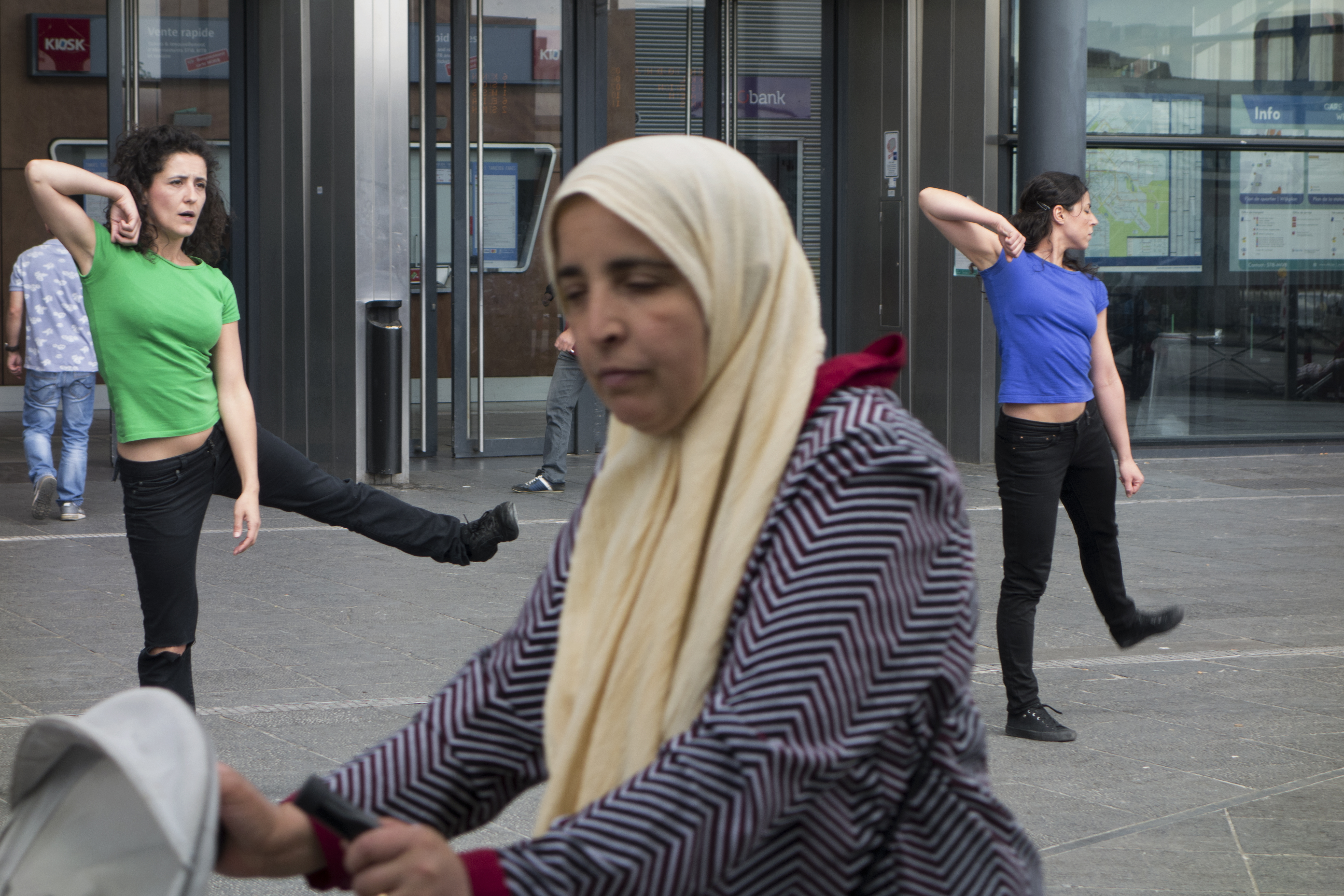 Performance of 'Visions of Miles' within the framework of the project 'In Search of Akarova' at Weststation / Gare de l'Ouest, Sint-Jans-Molenbeek / Molenbeek-Saint-Jean. Choreographers: Johanne Saunier, Ine Claes. Music: Miles Davis. Performers: Ine Claes (left), Guida Inês Maurício (right).